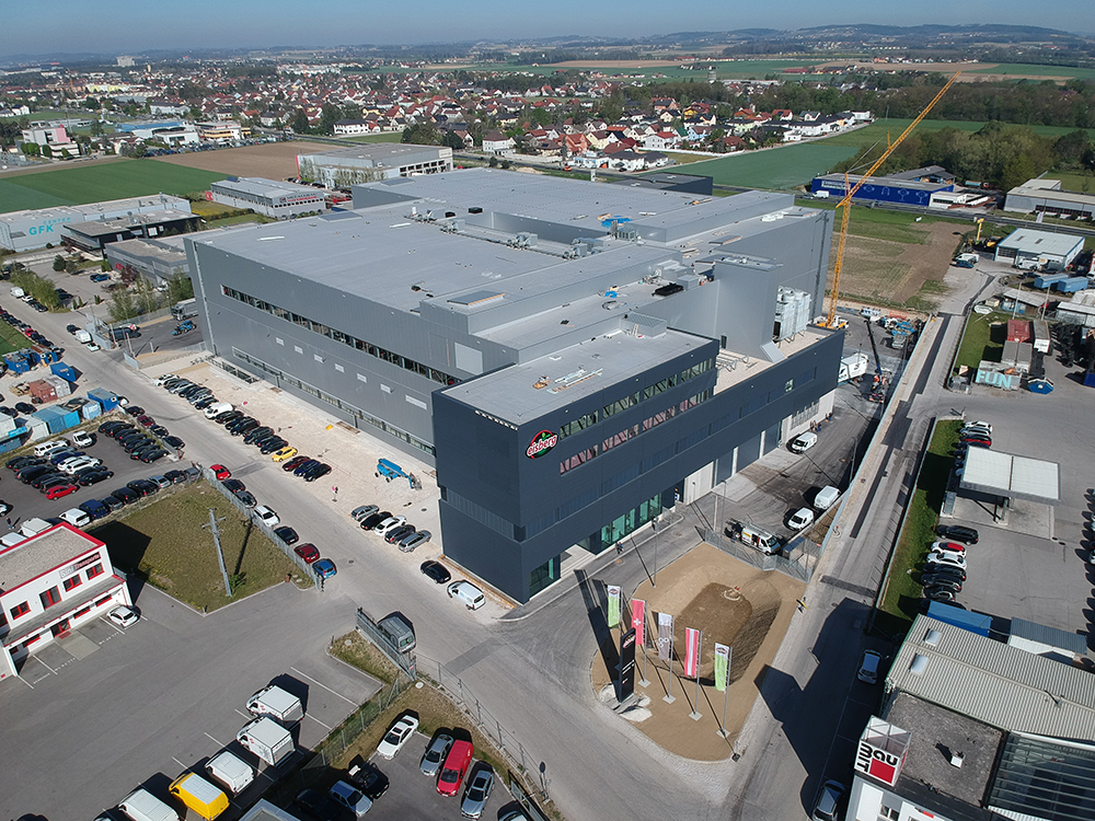 Eisberg Österreich AG in Marchtrenk